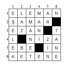 Crossword puzzle in Turkish